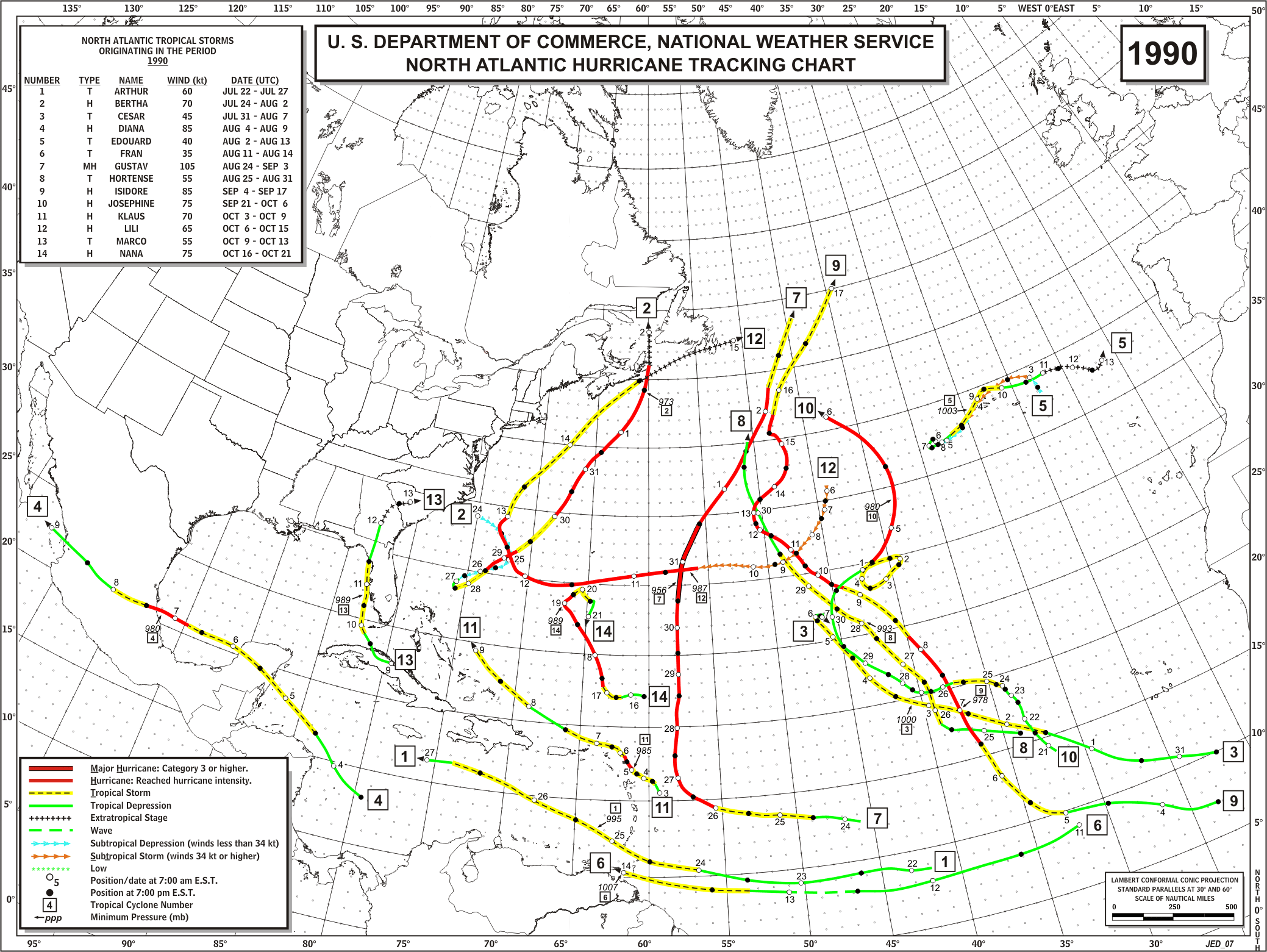 Season summary provided by NOAA of the 1990 Atlantic hurricane season.